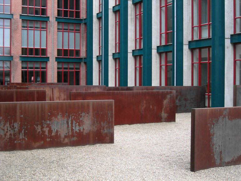 'Hours of the Day'(1990) by Richard Serra. Outside the Bonnefanten Museum, Maastricht, the Netherlands.